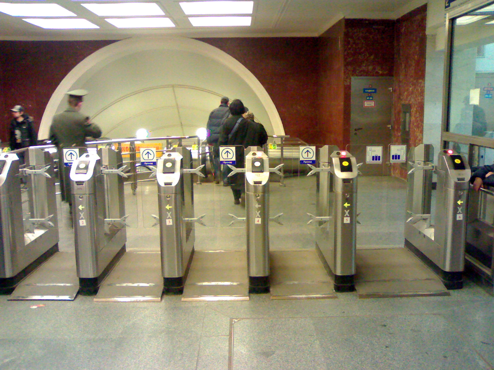 Tourniquet line. Majakovskaya metro station, Moscow.